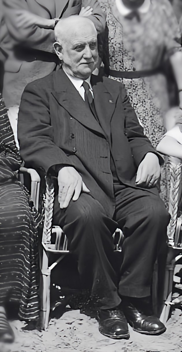 George Lansbury (cropped version of File:Photo 7 Council 1938, WRI.jpg)